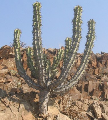 A Gifboom in Namibia